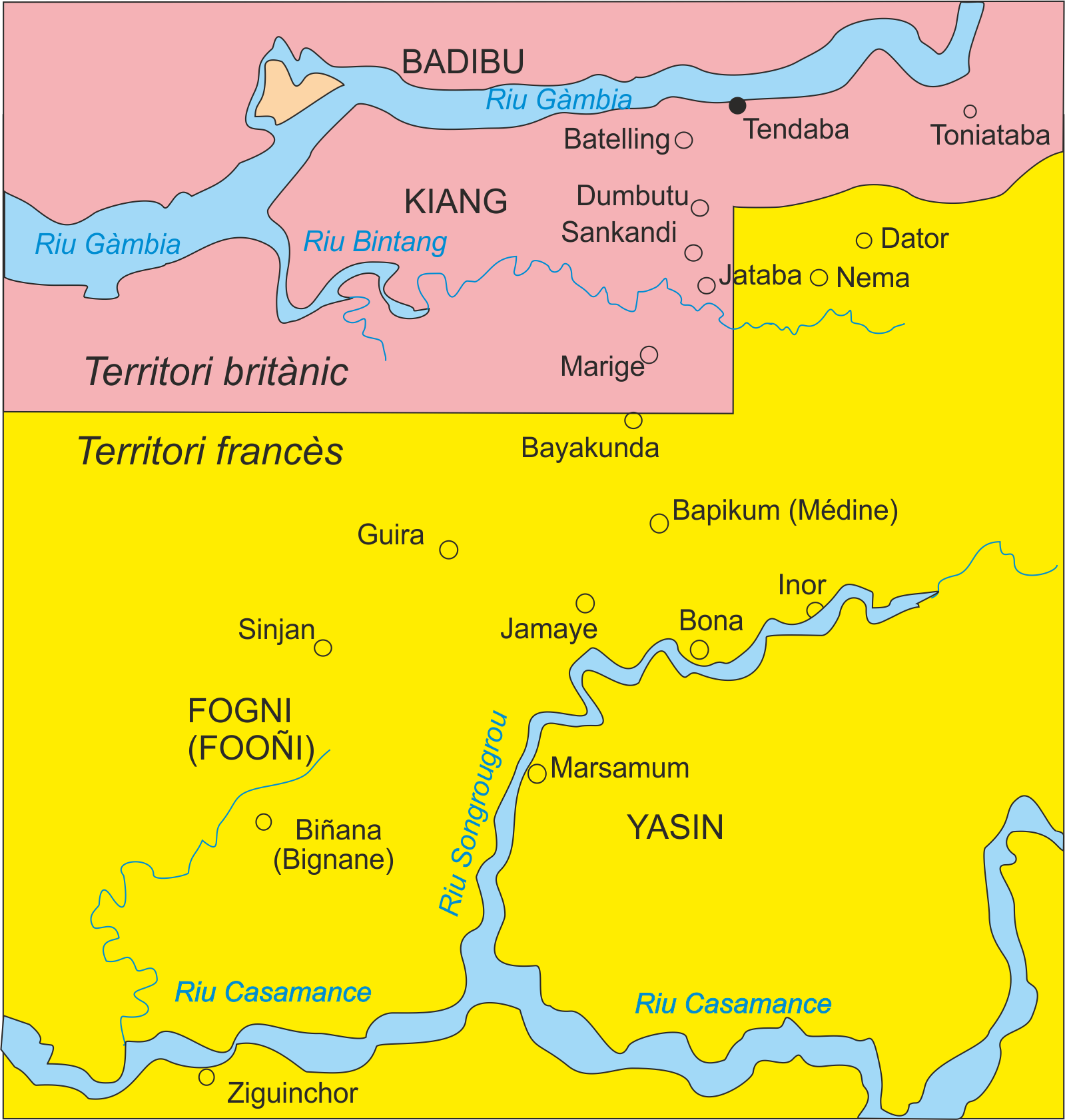 Regions of Kiang and Fogny in Gambia-Senegal